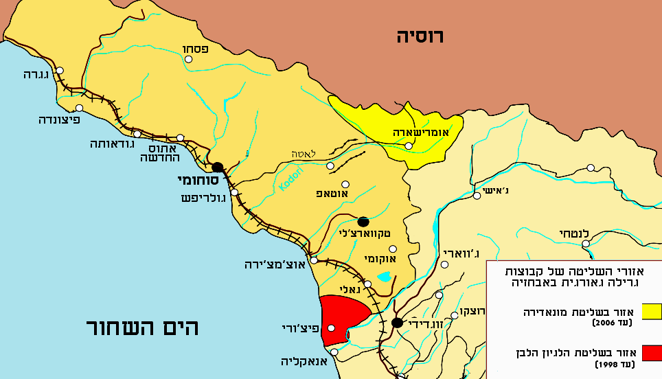 Georgian guerrilla groups in Abkhazia